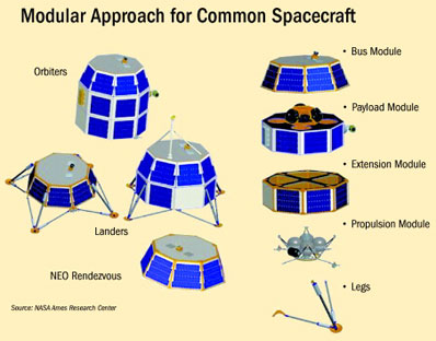 The Modular Common Spacecraft Bus, or body, is an innovative way of transitioning away from custom designs and toward multi-use designs and assembly line production, which could drastically reduce the cost of spacecraft development, just as the Ford Model T did for automobiles. The current Modular Common Spacecraft bus design has the ability to perform on various kinds of missions - including voyages to the Moon and Near Earth Objects - with different modules, or applicable plug-and-play systems.